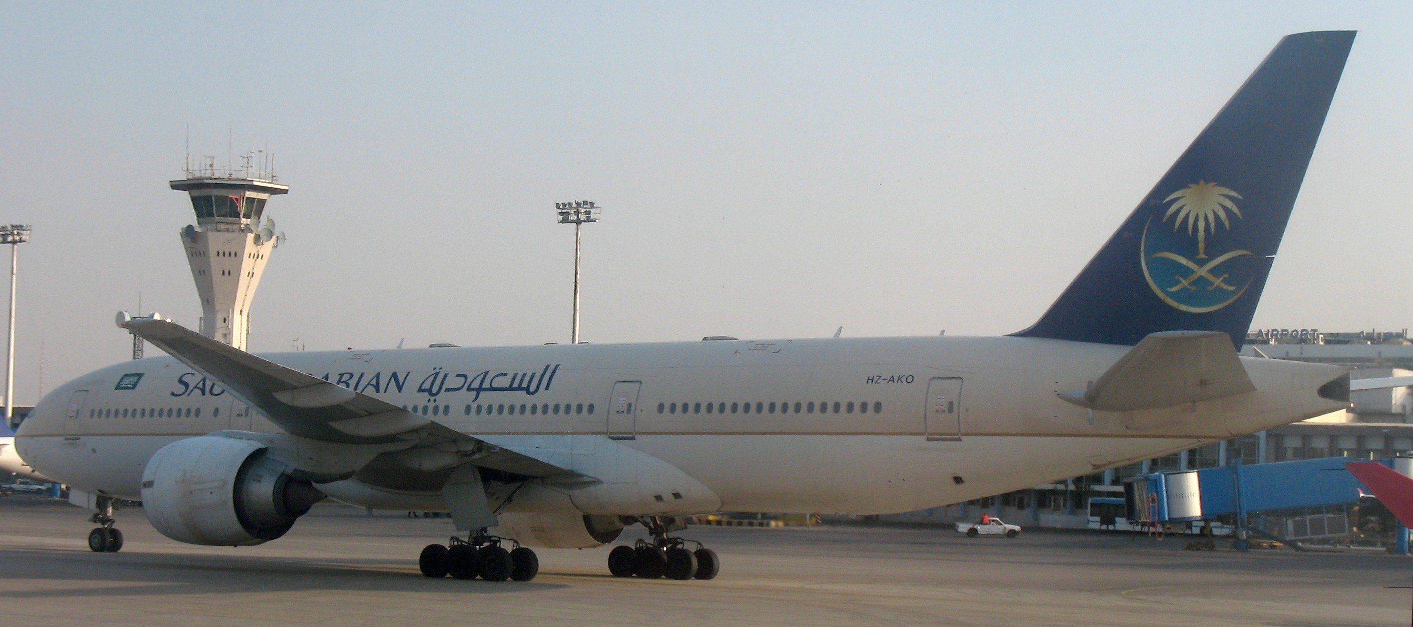 plane of the Saudi Arabian Airlines